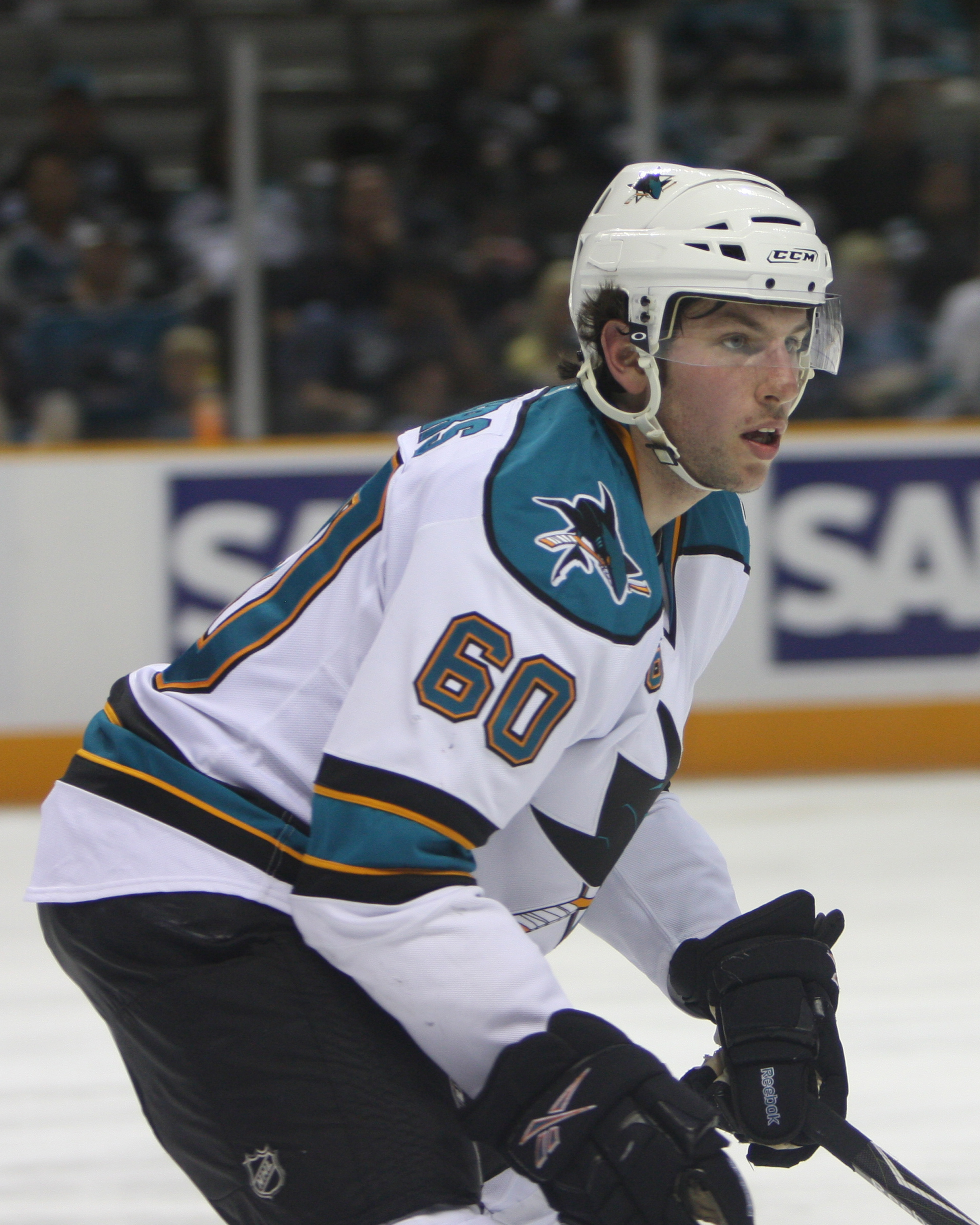 Jason Demers during the SJ Sharks Teal and White Game